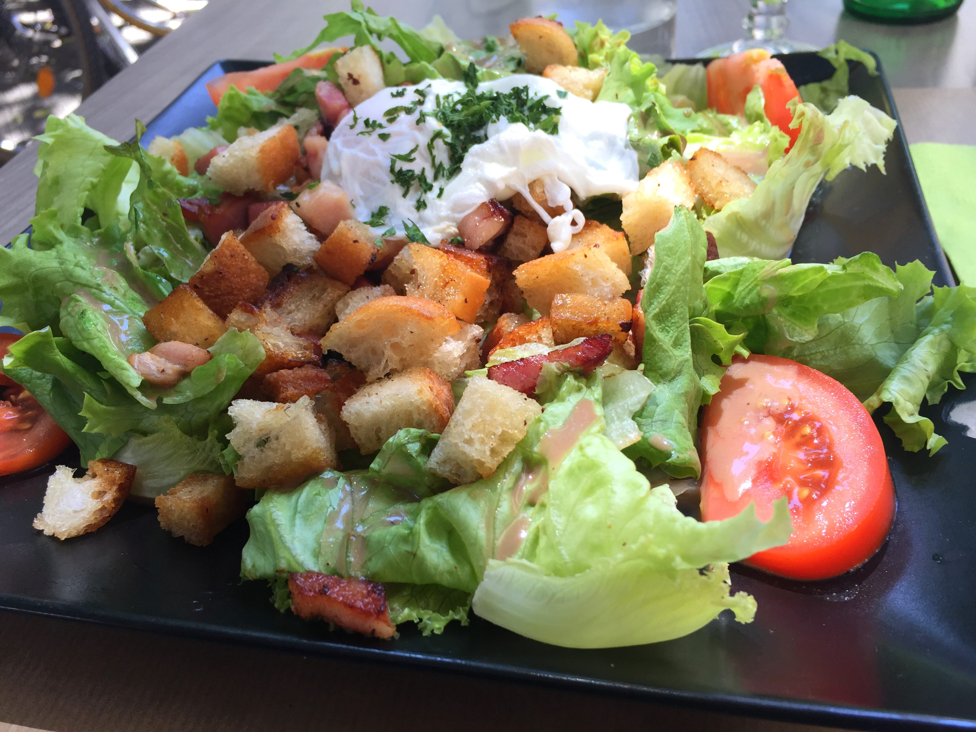 A Salade lyonnaise, from a Bistro in Vieux Lyon.